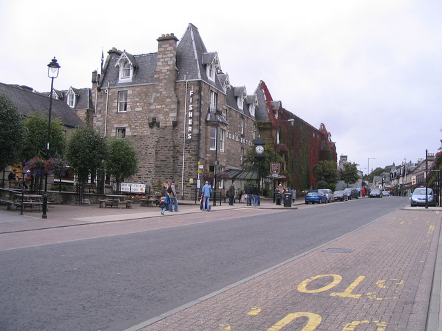 Atholl Road, Pitlochry Main street, Pitlochry, with the prominent Fishers Hotel, covered in creeper.